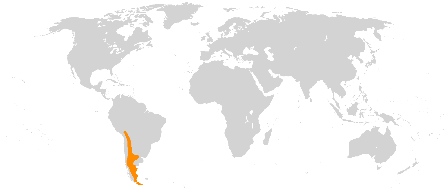 Guanaco (Lama guanicoe) range